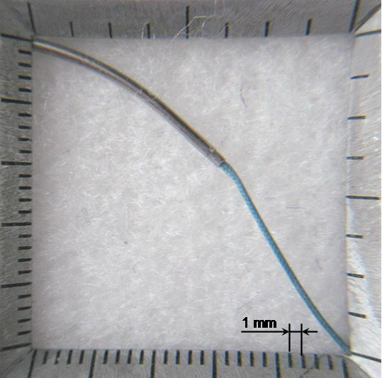 Suture connected to medical needle